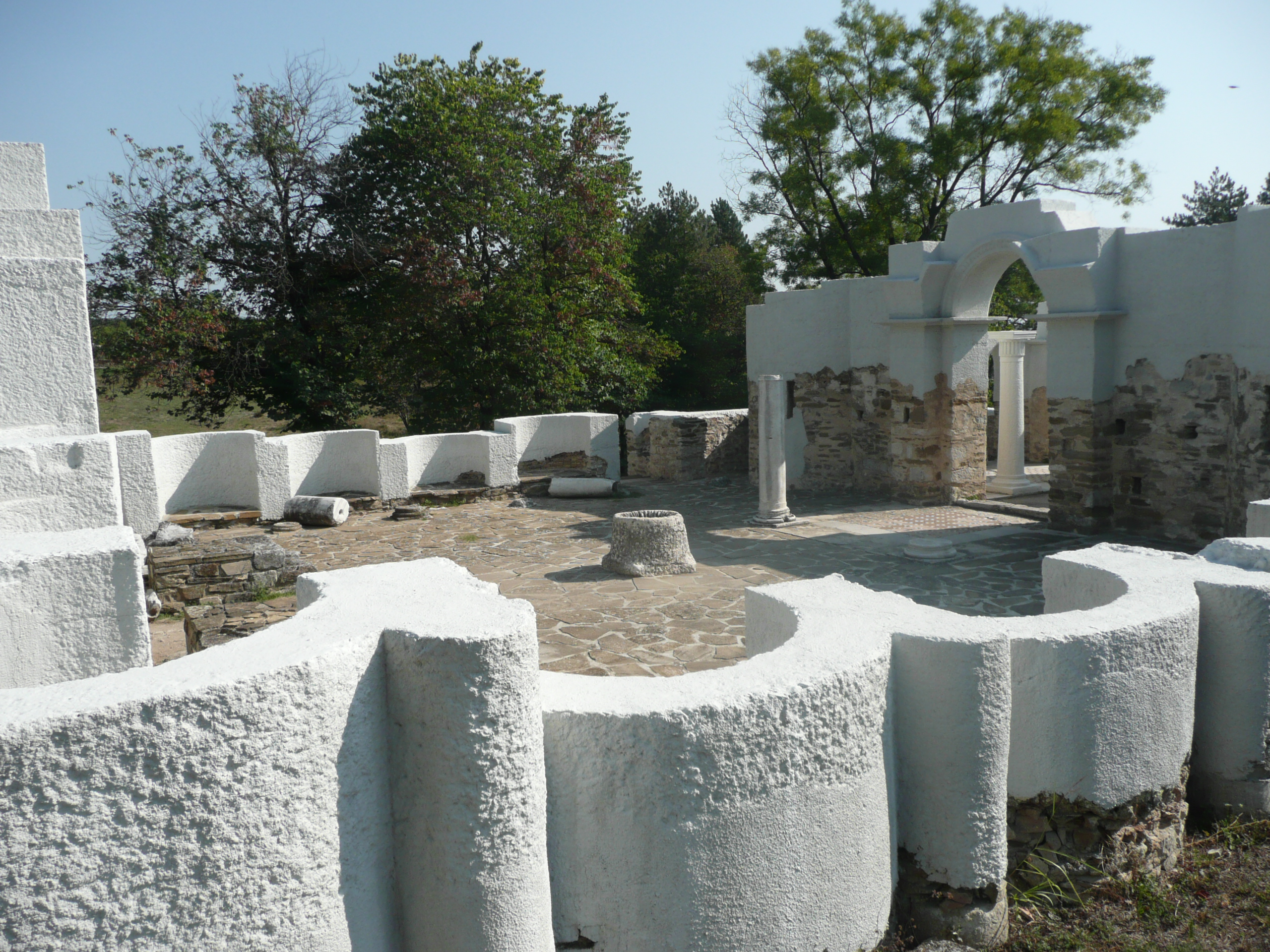 The Round church in the early medieval capital of Bulgaria Preslav (built ca 900 AD) near the palaces of Symeon the Great